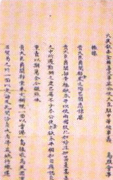 Convention of Chuenpeh